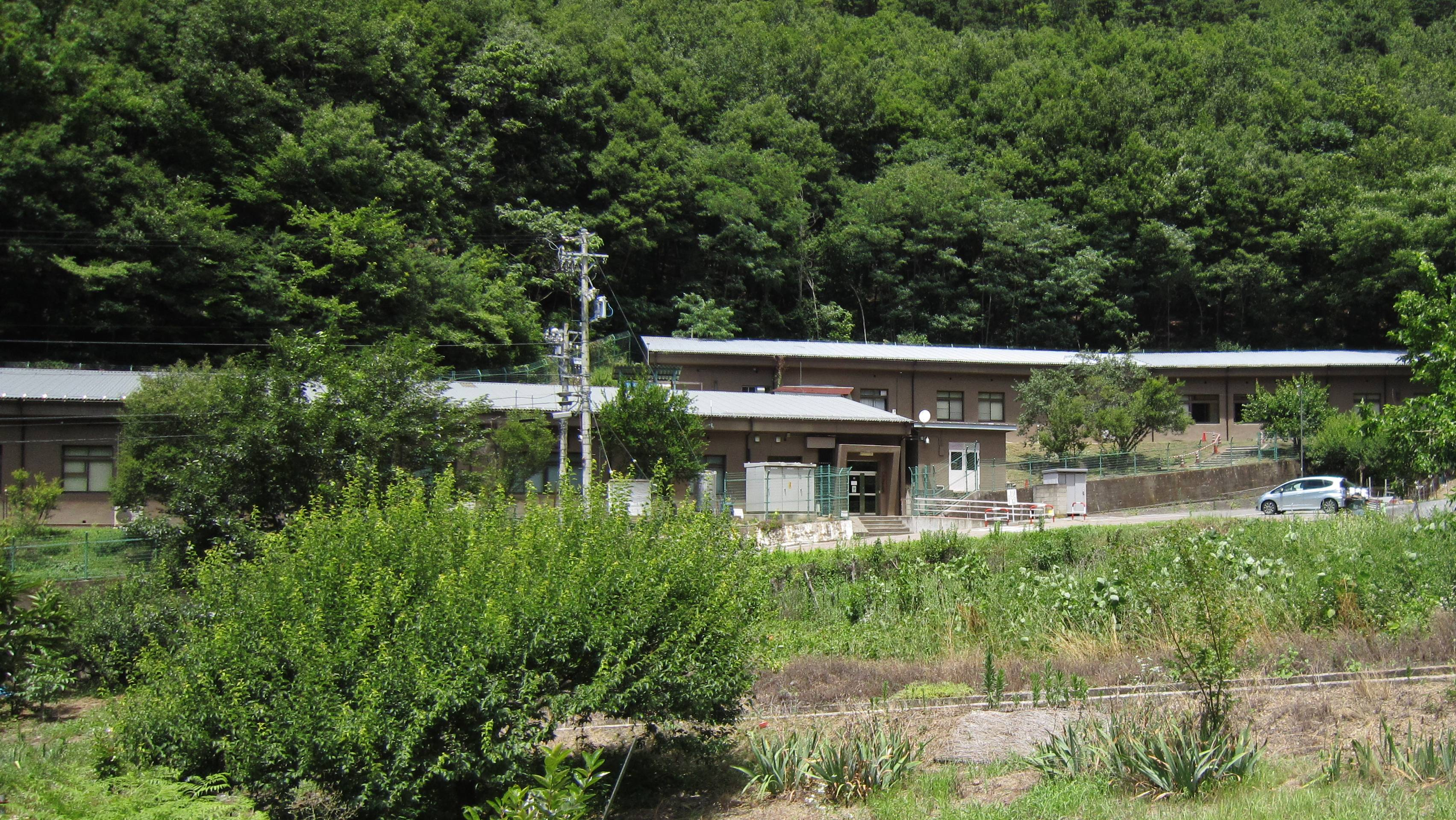 Matsushiro Seismological Observatory No. 1 (right) and 2 (left) office.